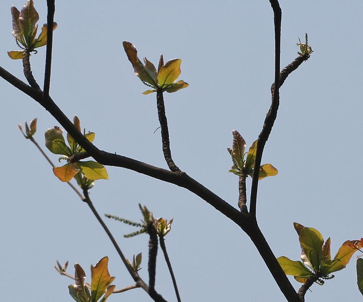 Desi Badam Terminalia catappa in Kolkata, West Bengal, India.